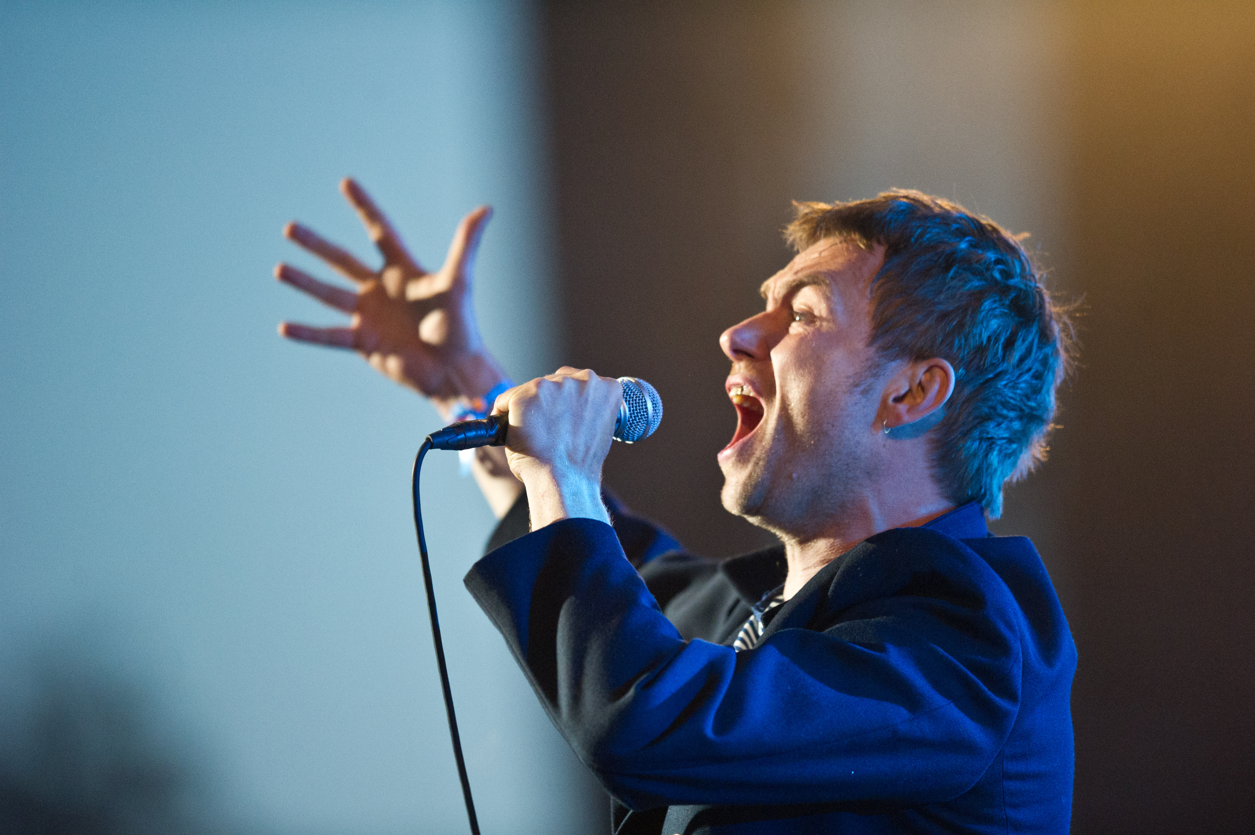 Damon Albarn performing on Orange Stage at Roskilde Festival for Gorillaz.